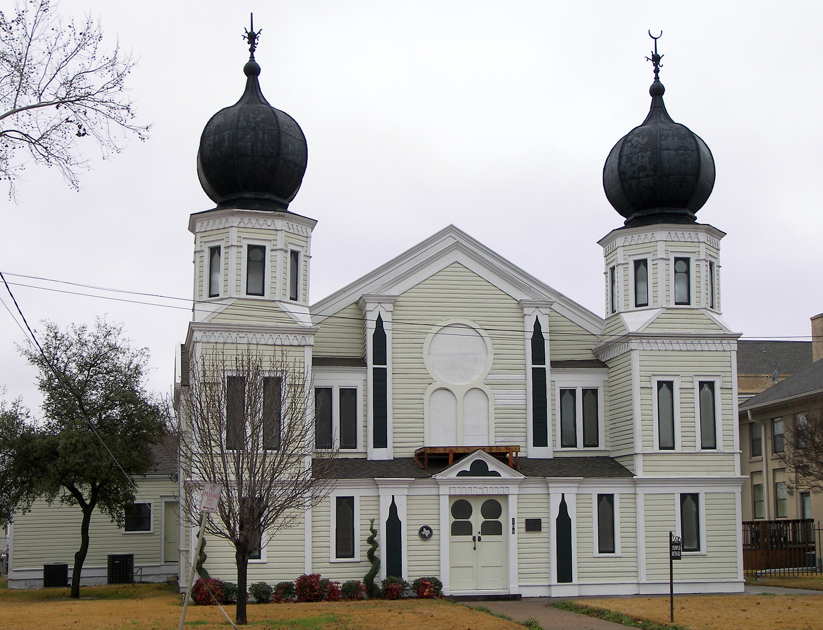 The Temple Beth-El located at 208 South 15th Street, Corsicana, Texas, United States. It designated a Recorded Texas Historic Landmark in 1981 and listed on the National Register of Historic Places on February 3, 1987.